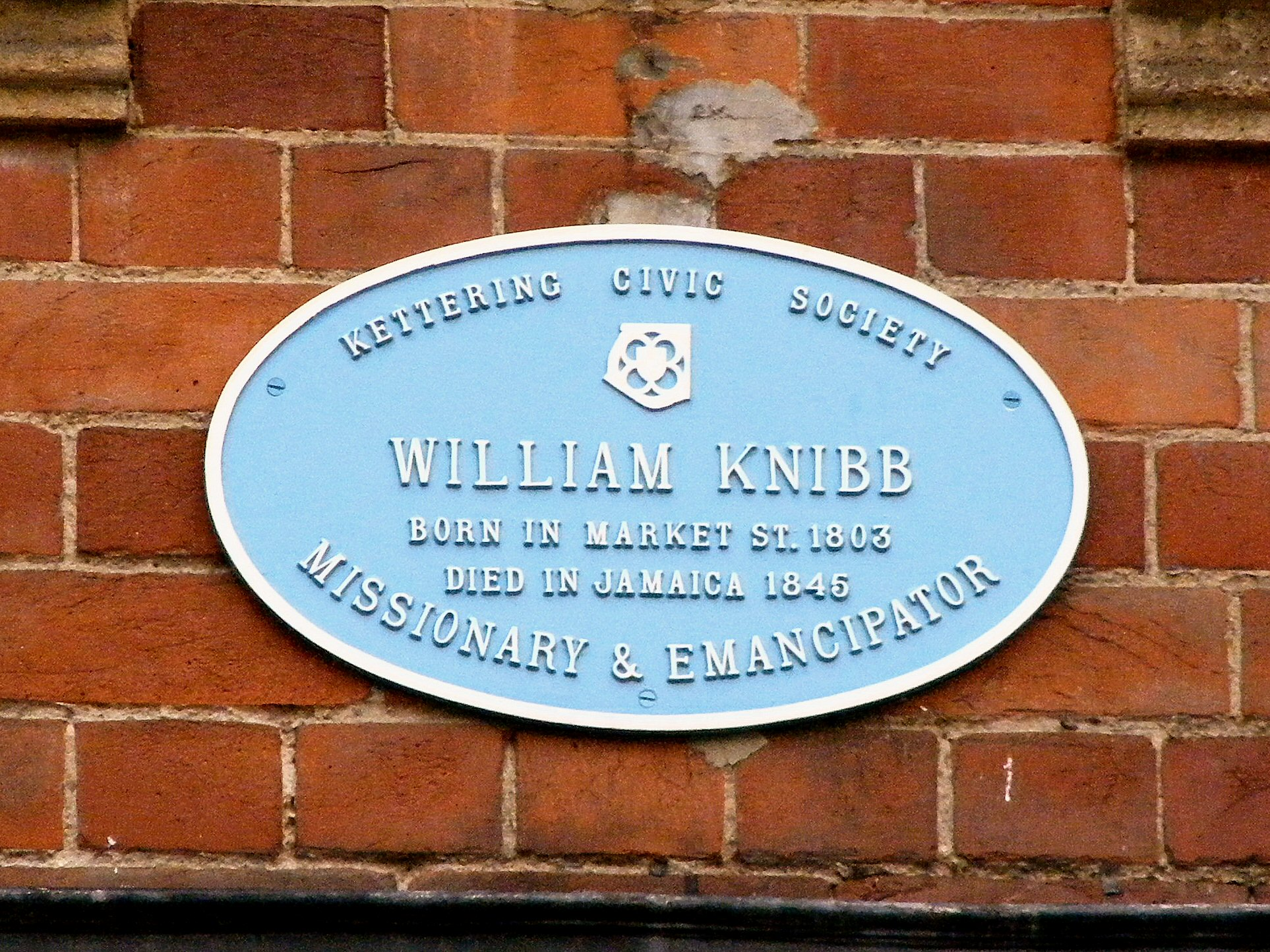 Blue plaque at the birthplace of William Knibb in Kettering, Northamptonshire.